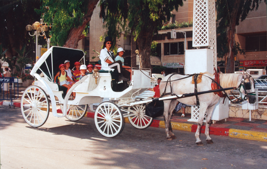 Tourist carriage in Nahariya